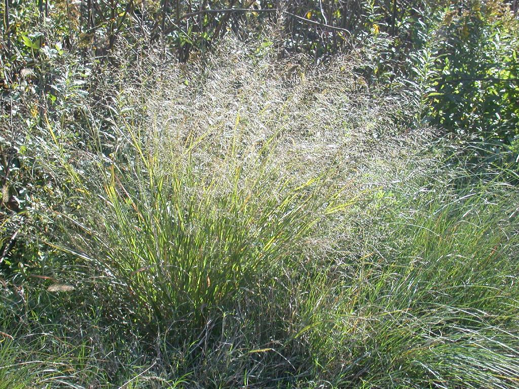 Name Eragrostis_ferrunginea （カゼクサ） Family Poaceae Date;2006,11;Sirahama town, Wakayama prefecture, Japan Author;Keisotyo